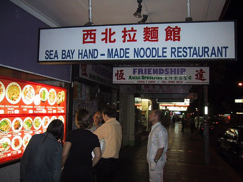 Hand made noodle shop AustraliaHand made noodle shop Australia